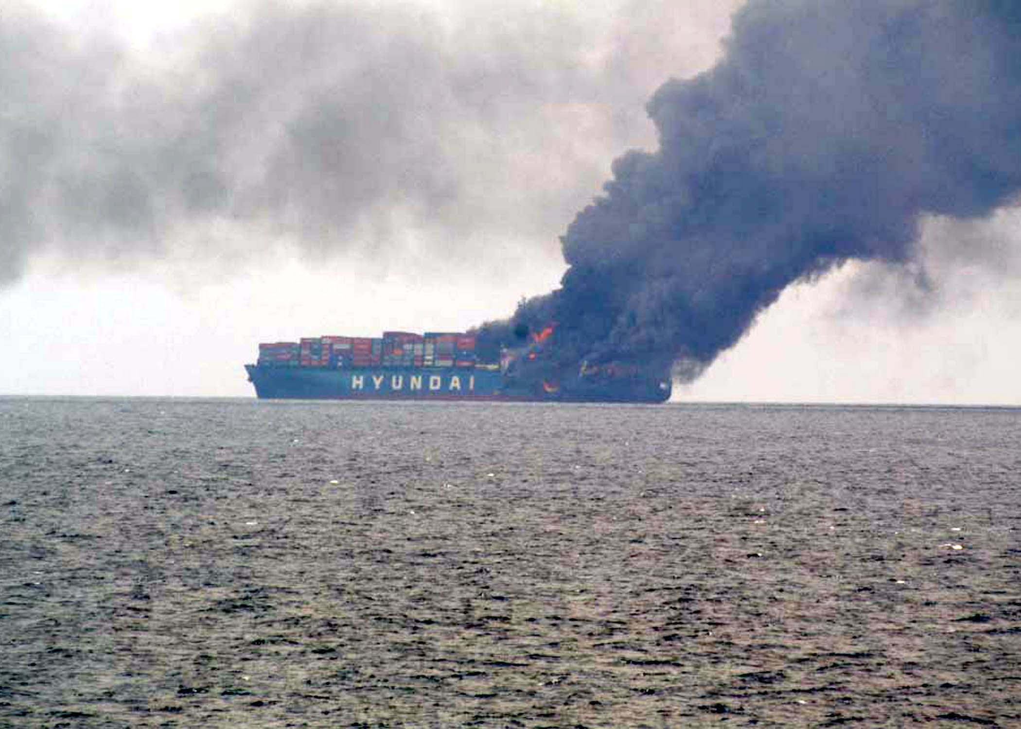 Gulf of Aden (March 21, 2006) – The Motor Vessel Hyundai Fortune burns in the Gulf of Aden, approximately 43 miles off the coast of Yemen. The Royal Netherlands Navy ship HNLMS De Zeven Provincien (F802) and the command ship of Combined Task Force 150, rescued 27 people from Hyundai Fortune while conducting maritime security operations (MSO) in support of Operation Enduring Freedom in the area. CTF 150 is one of three coalition maritime task forces that conduct MSO under the direction of U.S. Navy Vice Adm. Patrick Walsh, Combined Maritime Forces Component Commander, based in Bahrain. Walsh also commands CTF 58 in the northern Persian Gulf and CTF 152, which is responsible for patrolling the central and southern Persian Gulf. Photo courtesy of the Royal Netherlands Navy (RELEASED)